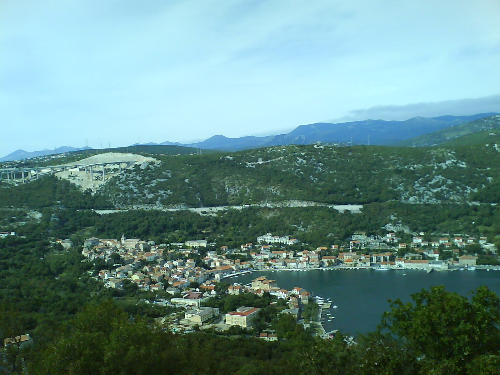 The view of Bakar